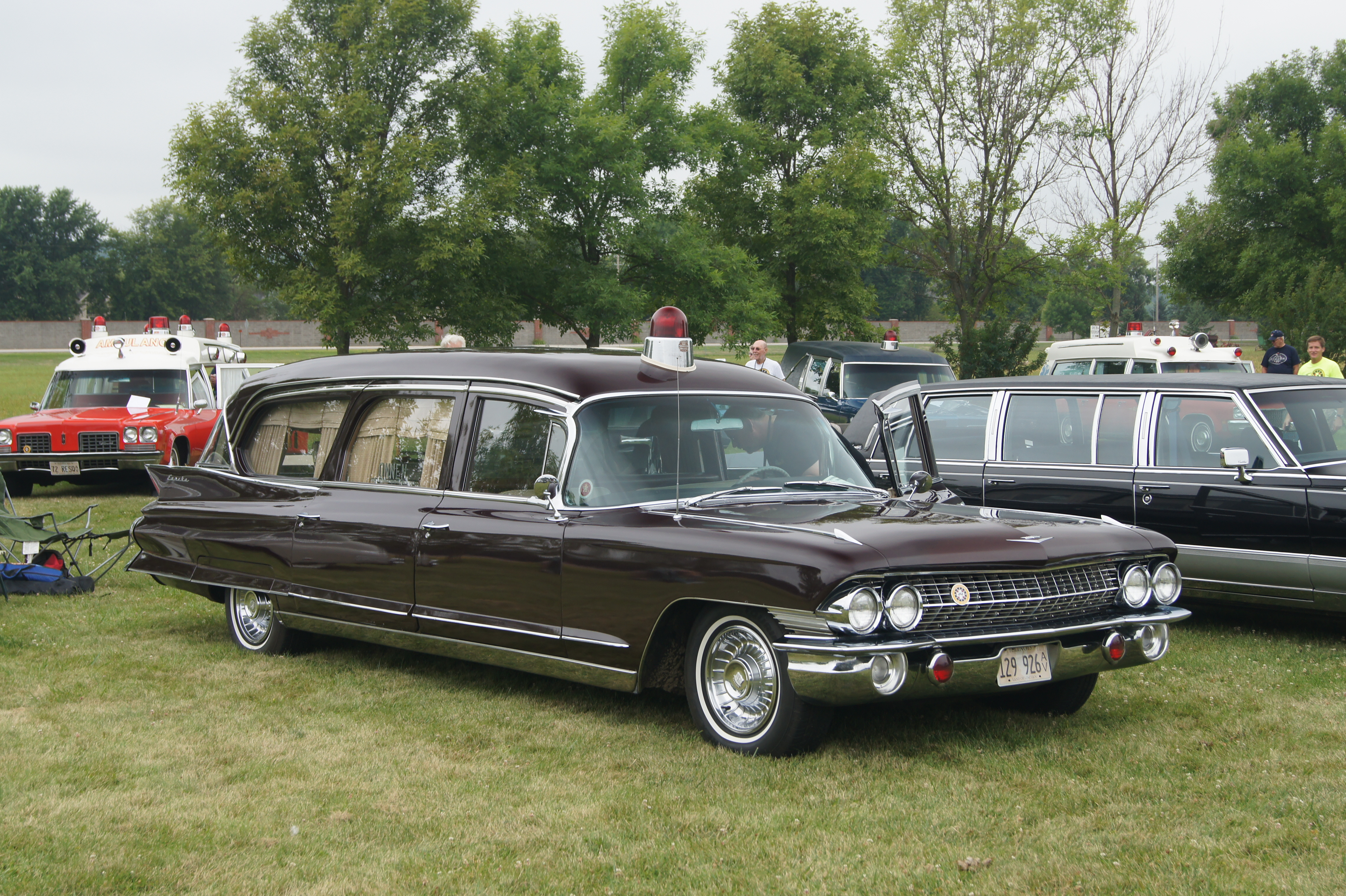 Professional Car Society International Meet 2014 Respond to Rochester Host: Northland Chapter (Celebrating Northland's 25th Anniversary) PCS Concours D'Elagance Show & Shine August 16, 2014 Olmstead County History Center Rochester, Minnesota You can see more car pictures by clicking on the link below